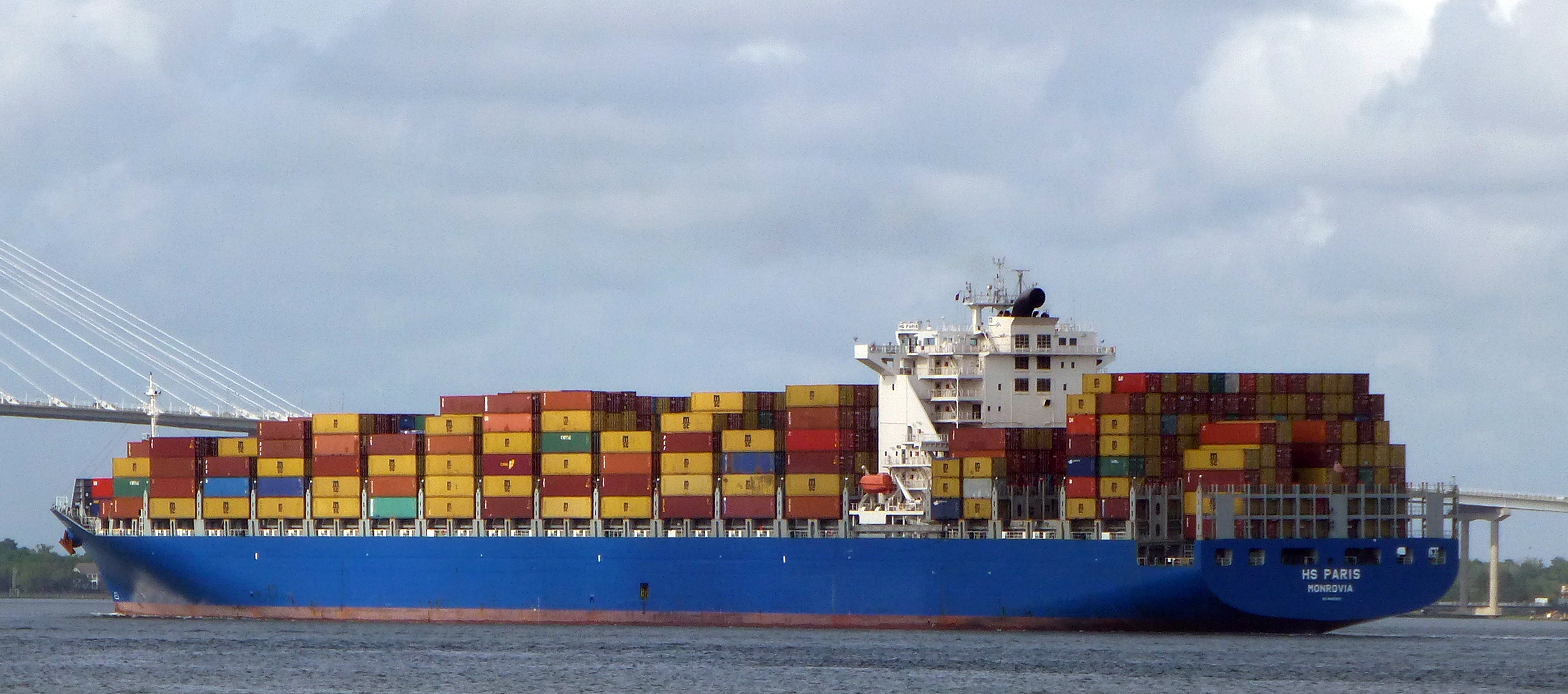 Container ship HS Paris in Charleston (SC)